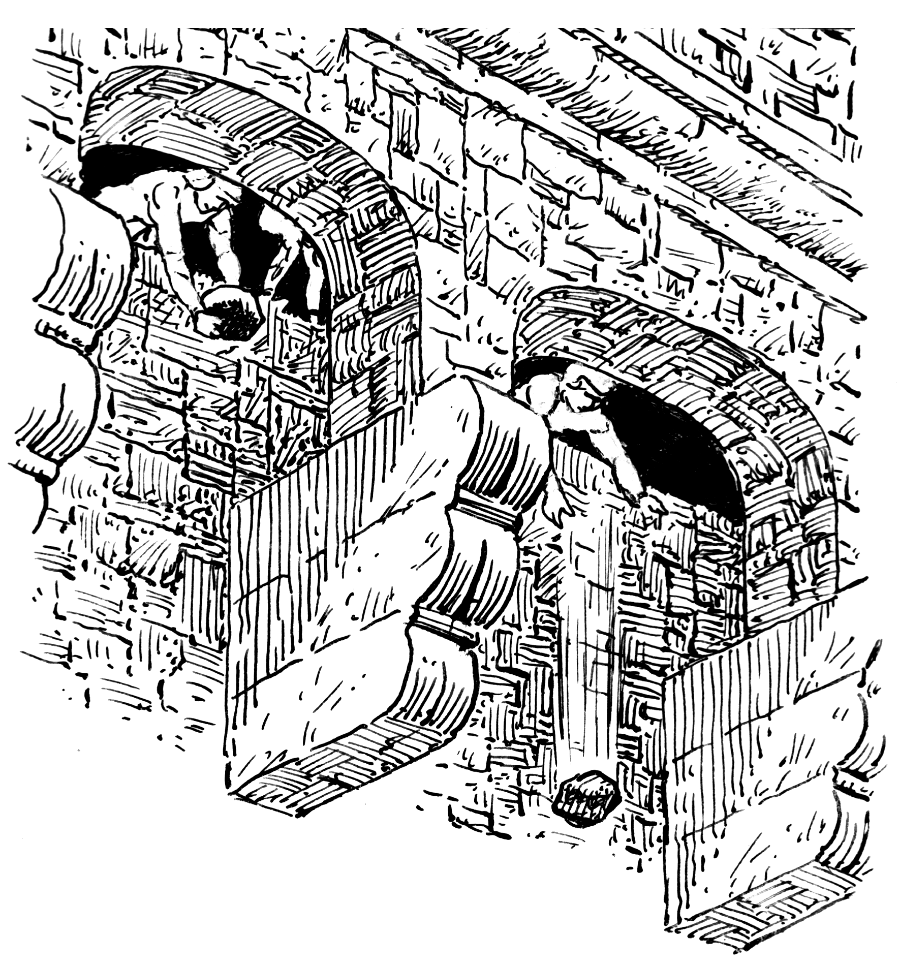 An illustration showing an object being dropped from a machicolation — that is supported by stone corbels.